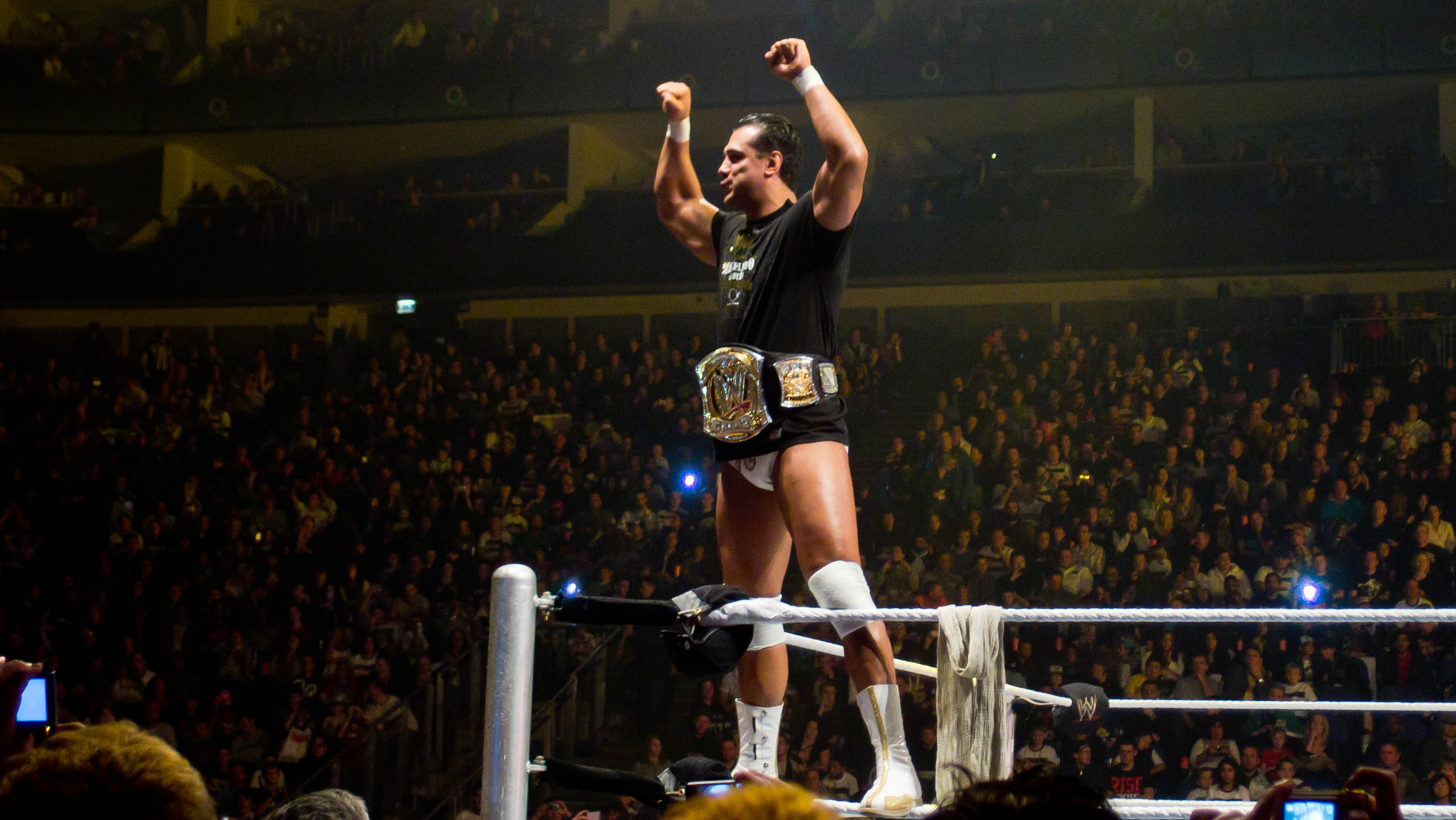 WWE Champion Alberto Del Rio at a WWE Raw World Tour house show in London in November 2011.